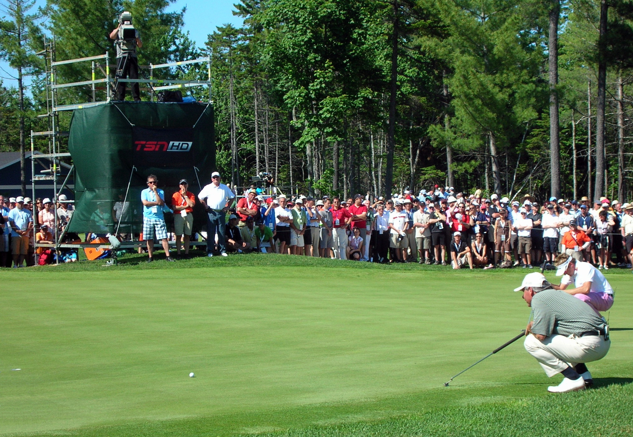 Fred Couples and Ian Poulter at Telus World Skins Game, La Tempête Golf Club, Lévis, province of Quebec, Canada